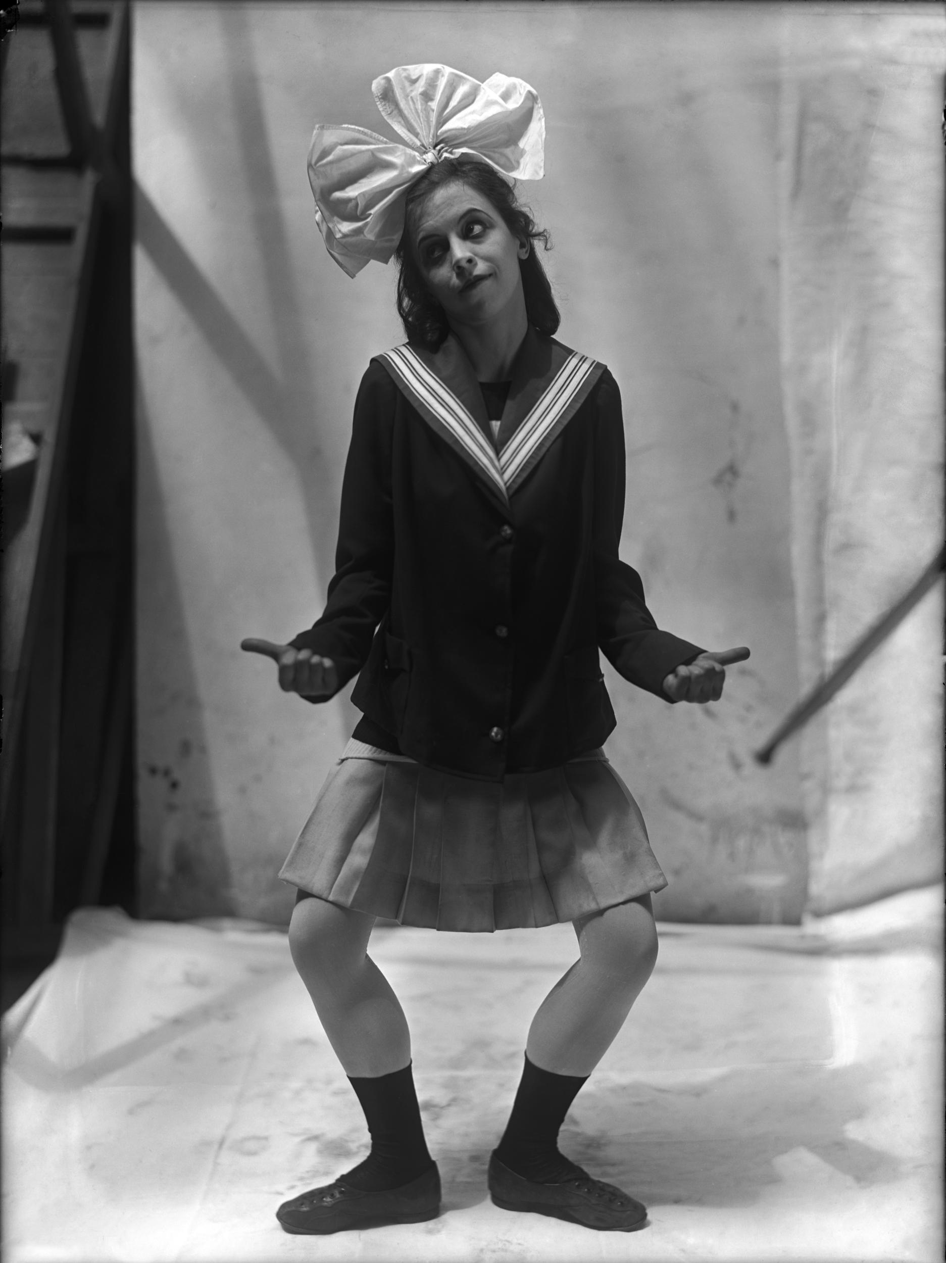 Promoting the ballet Parade for Diaghilev Ballets Russes at the Théâtre du Châtelet in Paris, 1917. Actress not named. Photographer, Harry Lachman. Set and costume by Pablo Picasso. Choreographer, Léonide Massine. The background in this photograph makes it appear tainted at low resolutions, but it is in fact a part of a set designed by Picasso in a clear image of the photograph.